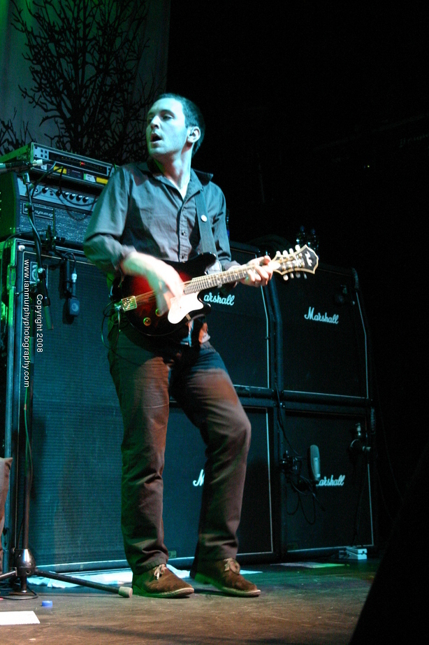 Jeff DaRosa performing with Dropkick Murphys in 2008